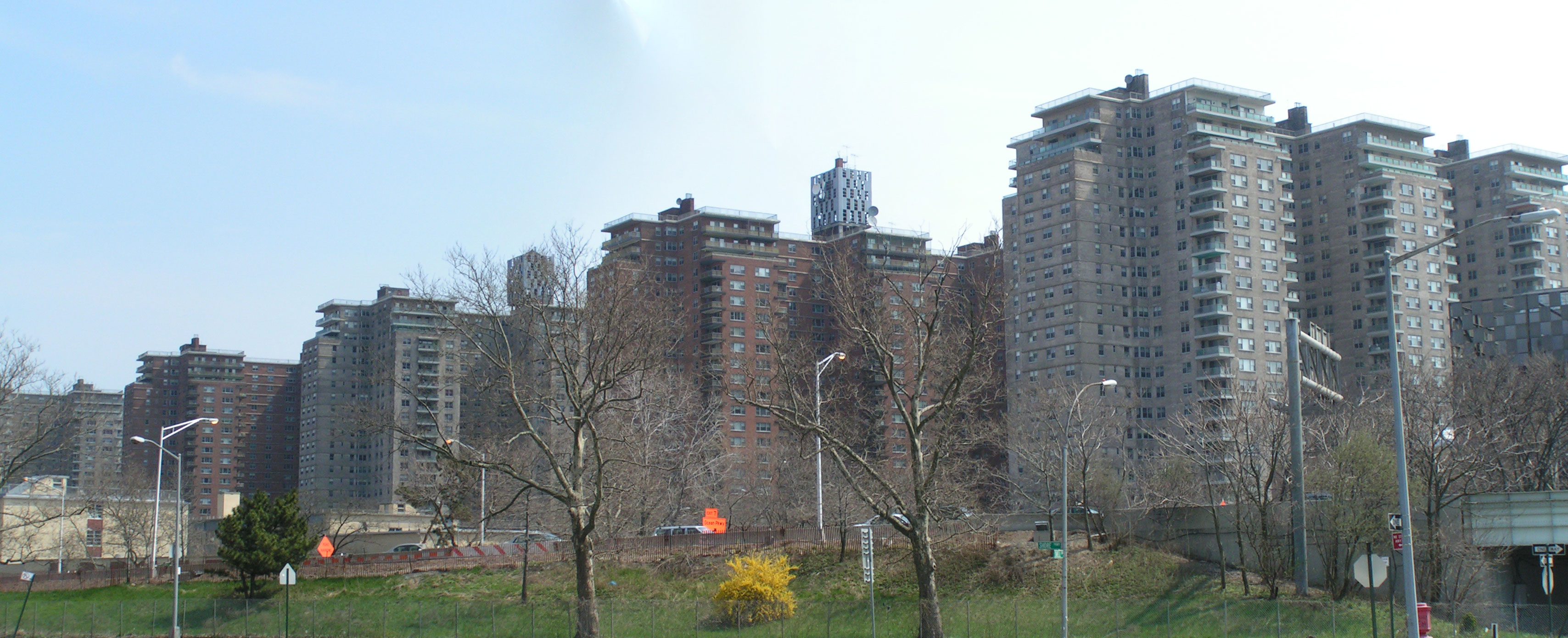 Panorama of the 5 apartment towers comprising Amalgamated Warbasse cooperative housing in Brooklyn, by architect Herman Jessor. Warbasse is one of the developments built by the United Housing Foundation